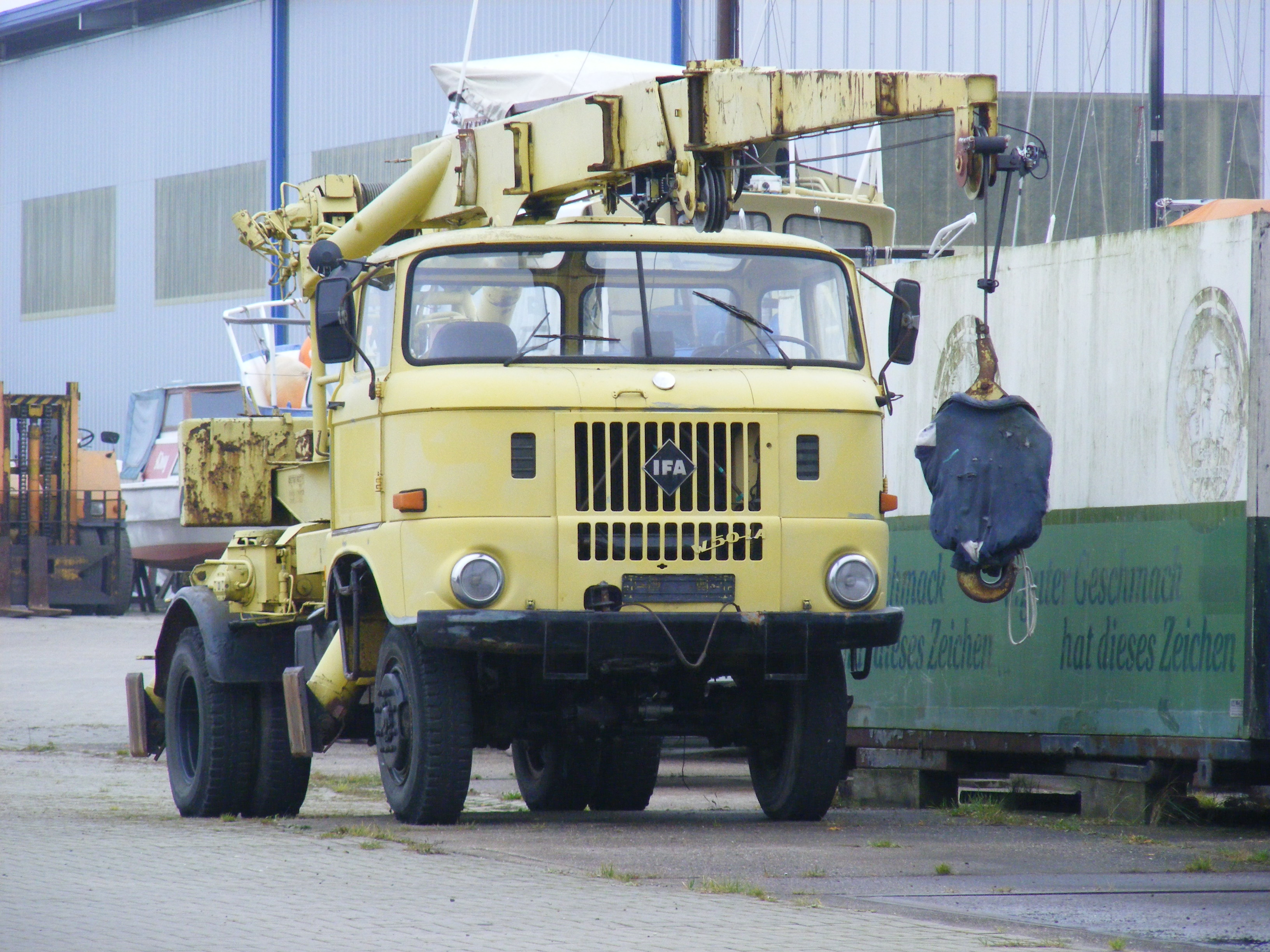 IFA Mobile Crane, Barth Germany, internal use hence no registration